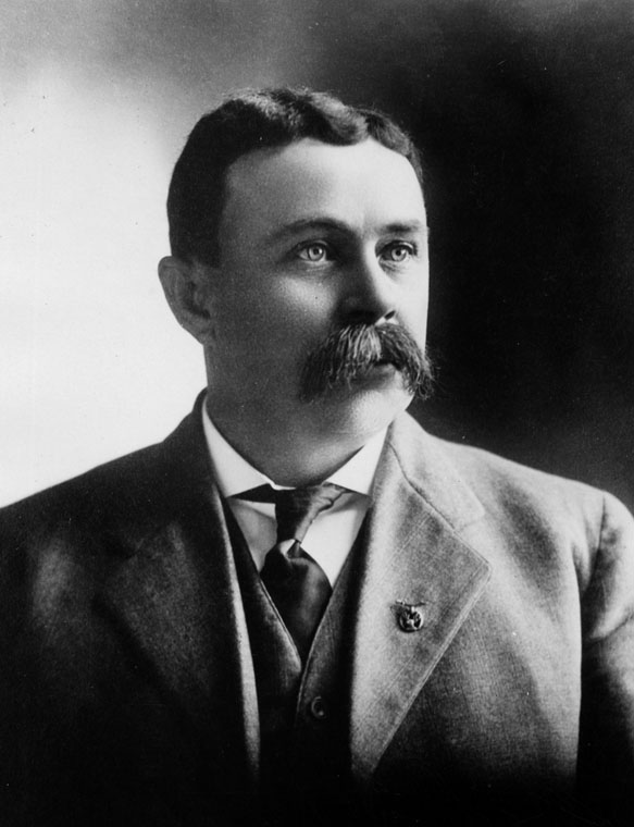 Los Angeles Mayor Arthur C. Harper, during time in office (left in 1909).